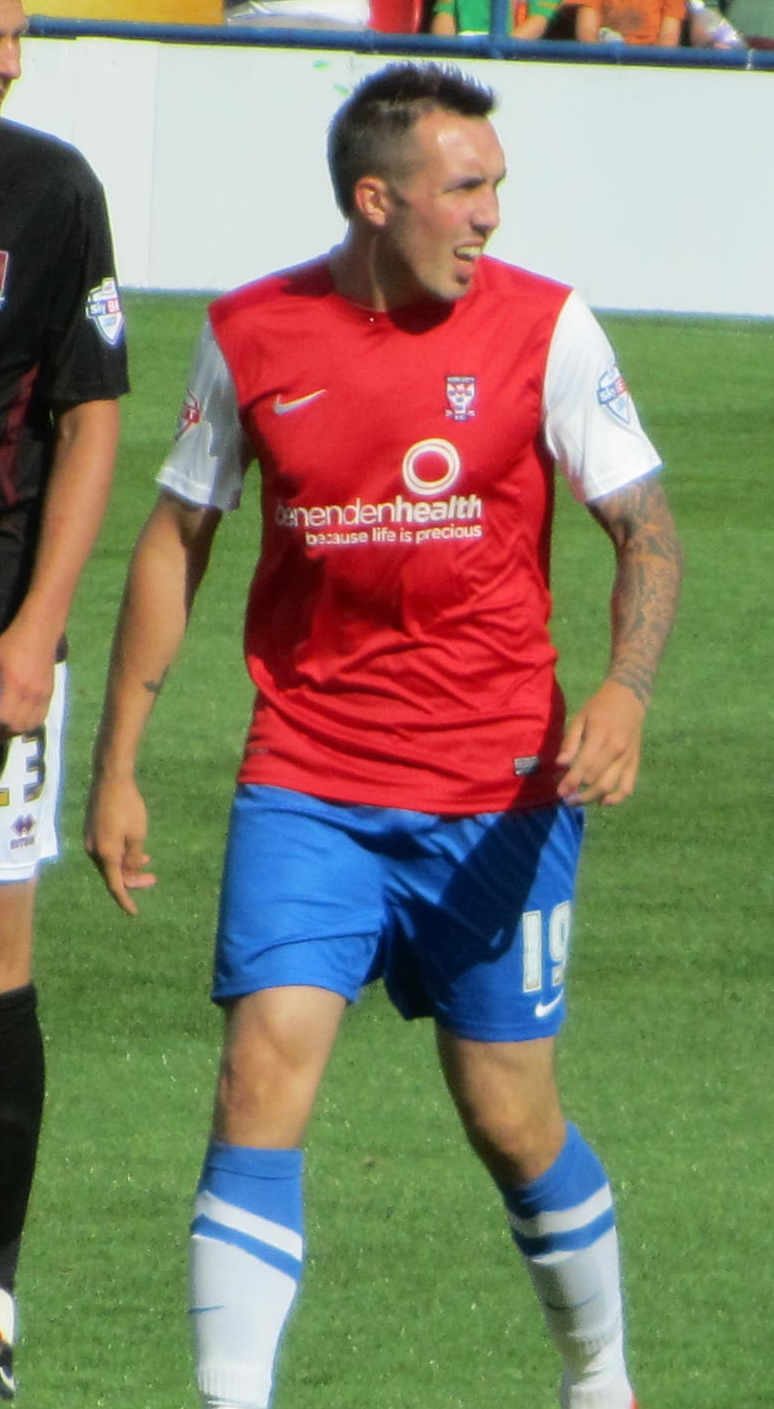 Ryan Bowman playing for York City against Northampton Town at Bootham Crescent, York on 3 August 2013